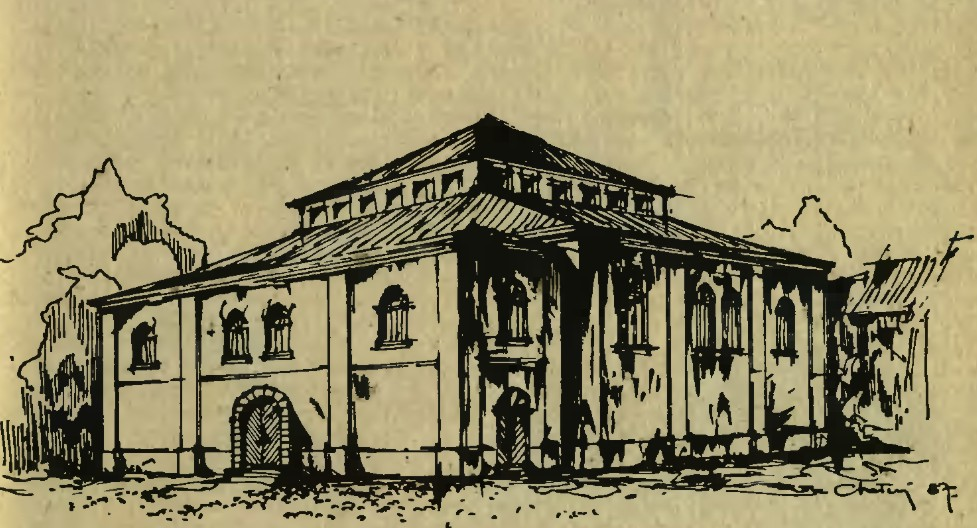 General view of synagogue in Radom